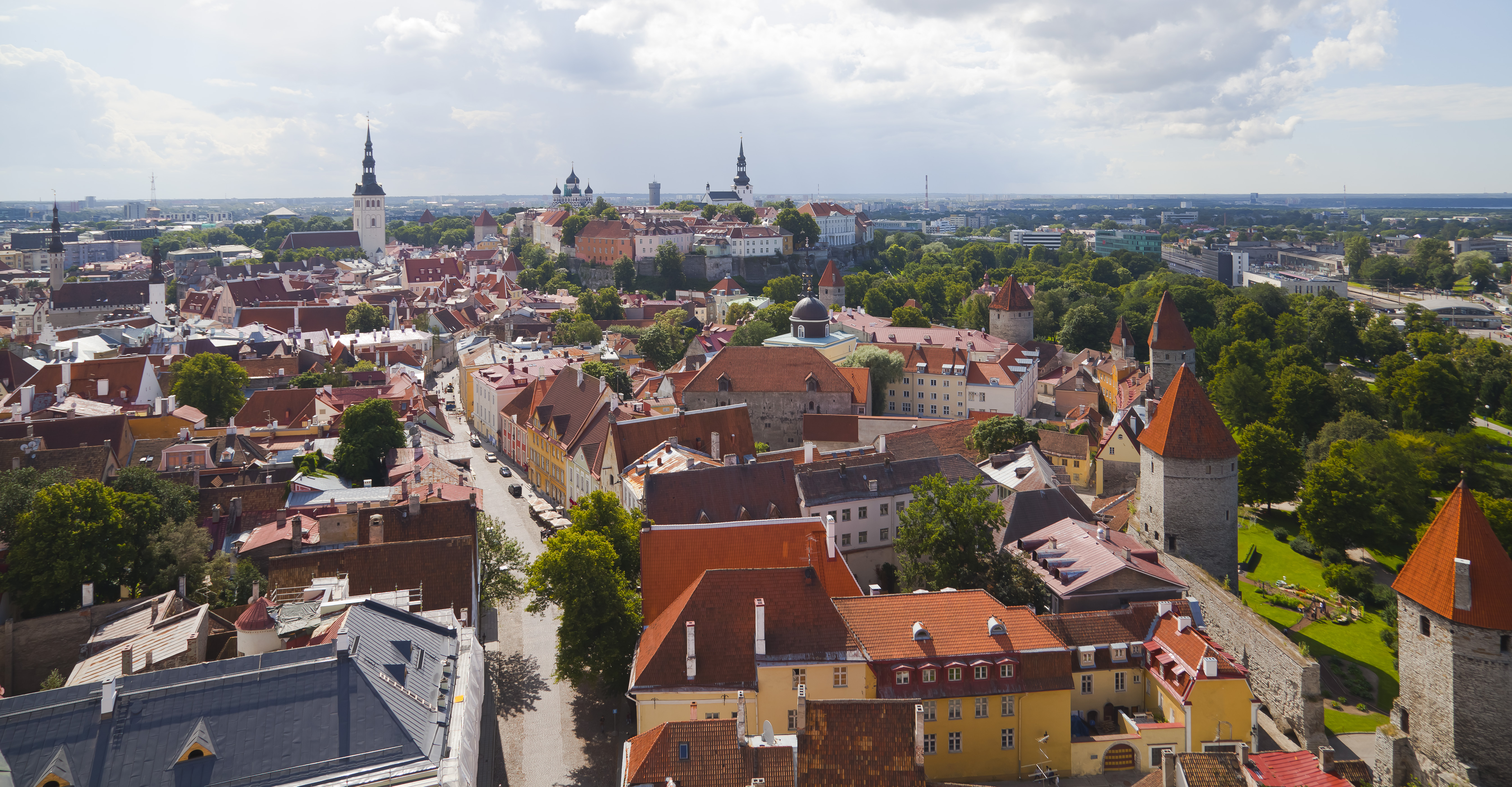 View of Tallinn from St. Olaf's church, Estonia